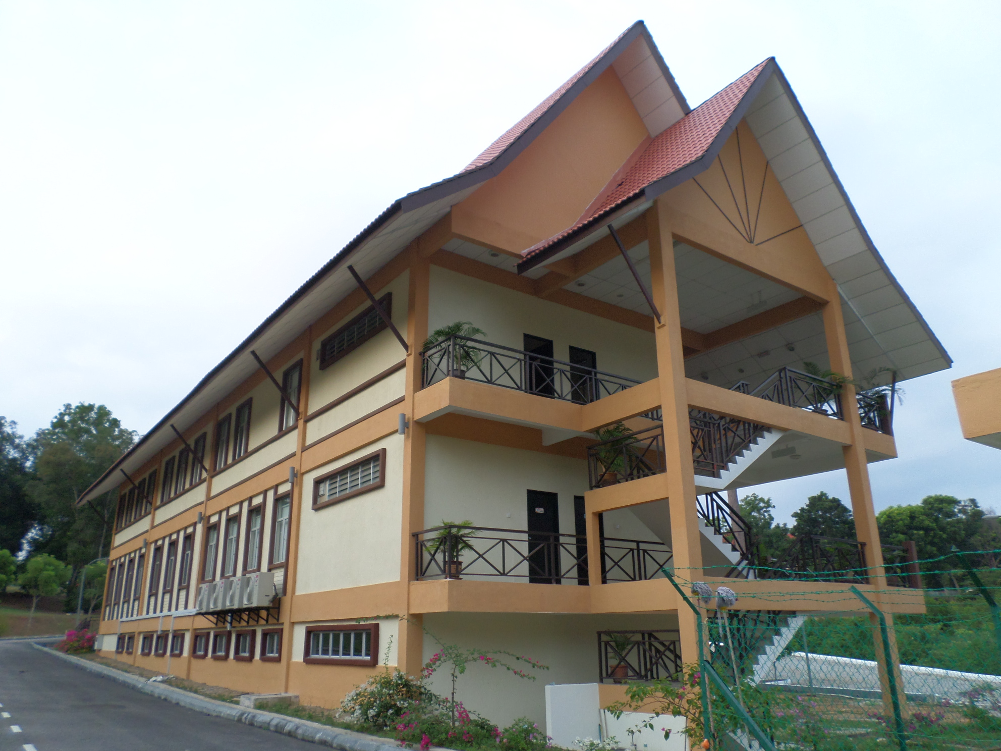 Melaka Craft Center, Ayer Keroh, Melaka, Malaysia